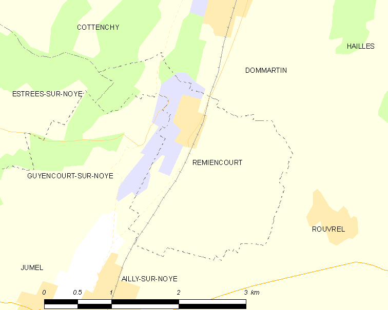 Map of French municipality Remiencourt